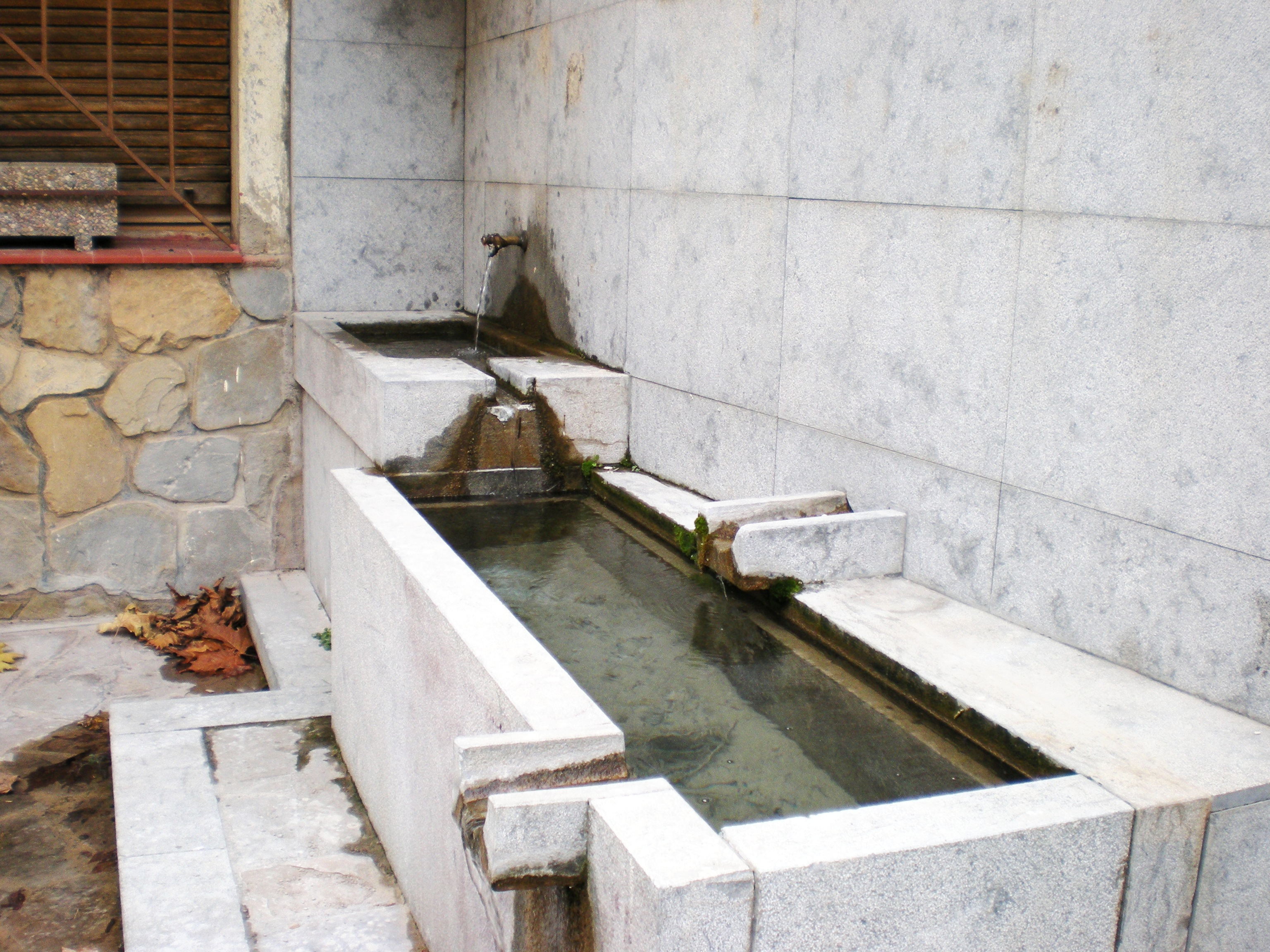 Font de l'Era Nova. Sant Llorenç de Morunys (Solsonès)